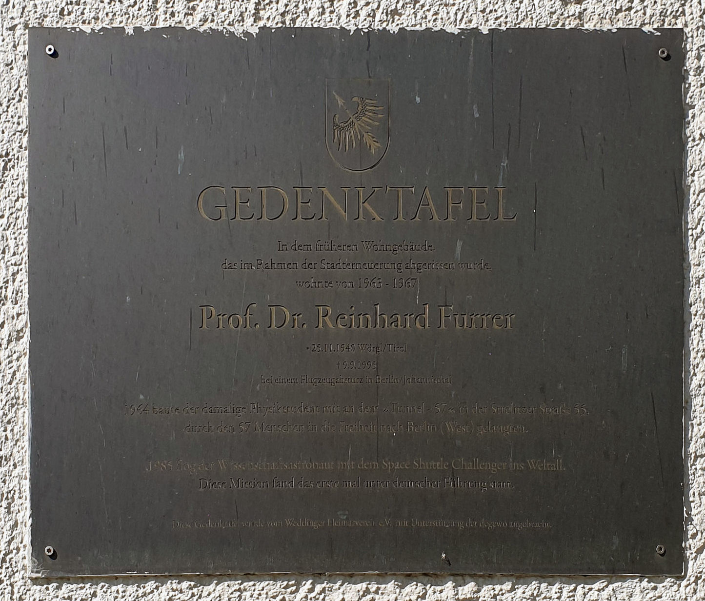 Memorial plaque, Reinhard Furrer, Brunnenstraße 135, Berlin-Gesundbrunnen, Germany